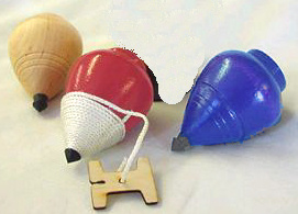 Trompo Bearing